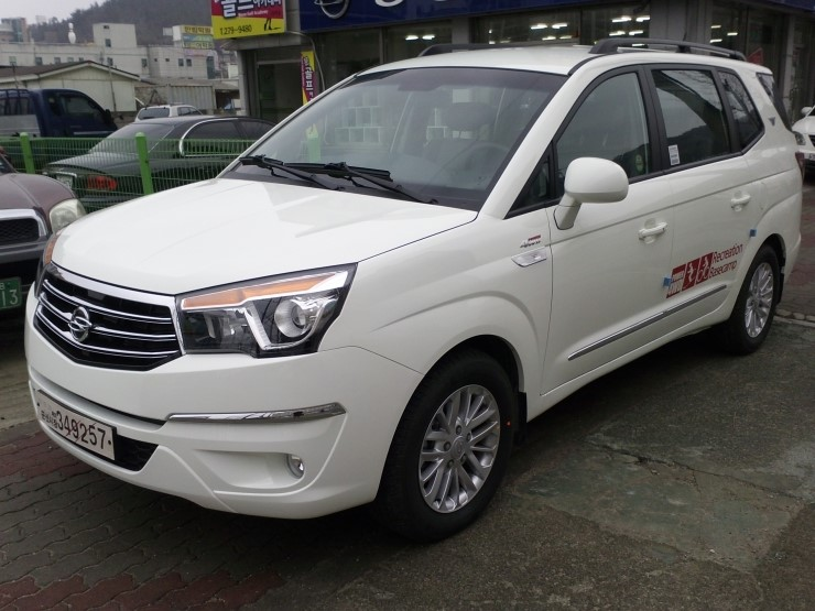 SsangYong Korando Turismo